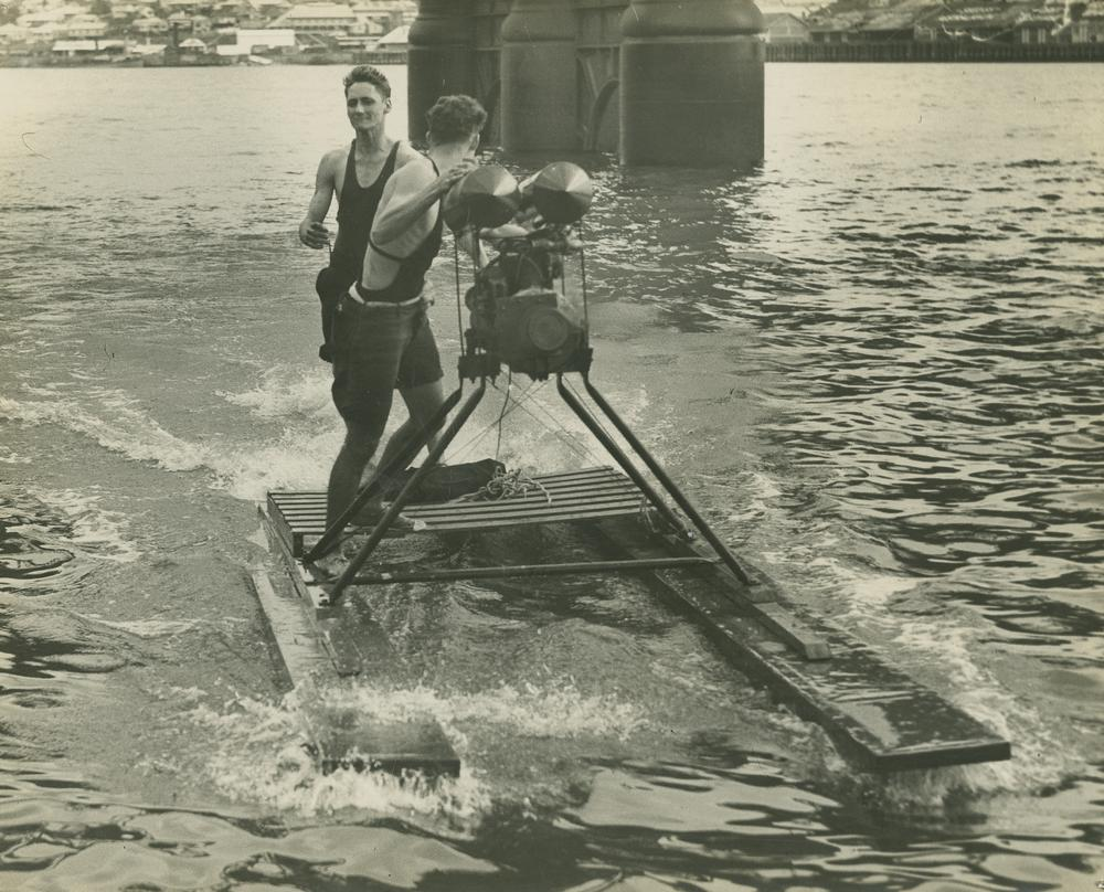 Two young men having fun with their home-made watercraft on the Brisbane River